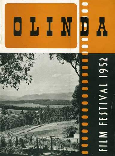 Olinda Film Festival 1952 became the Melbourne International Film Festival that still runs today.